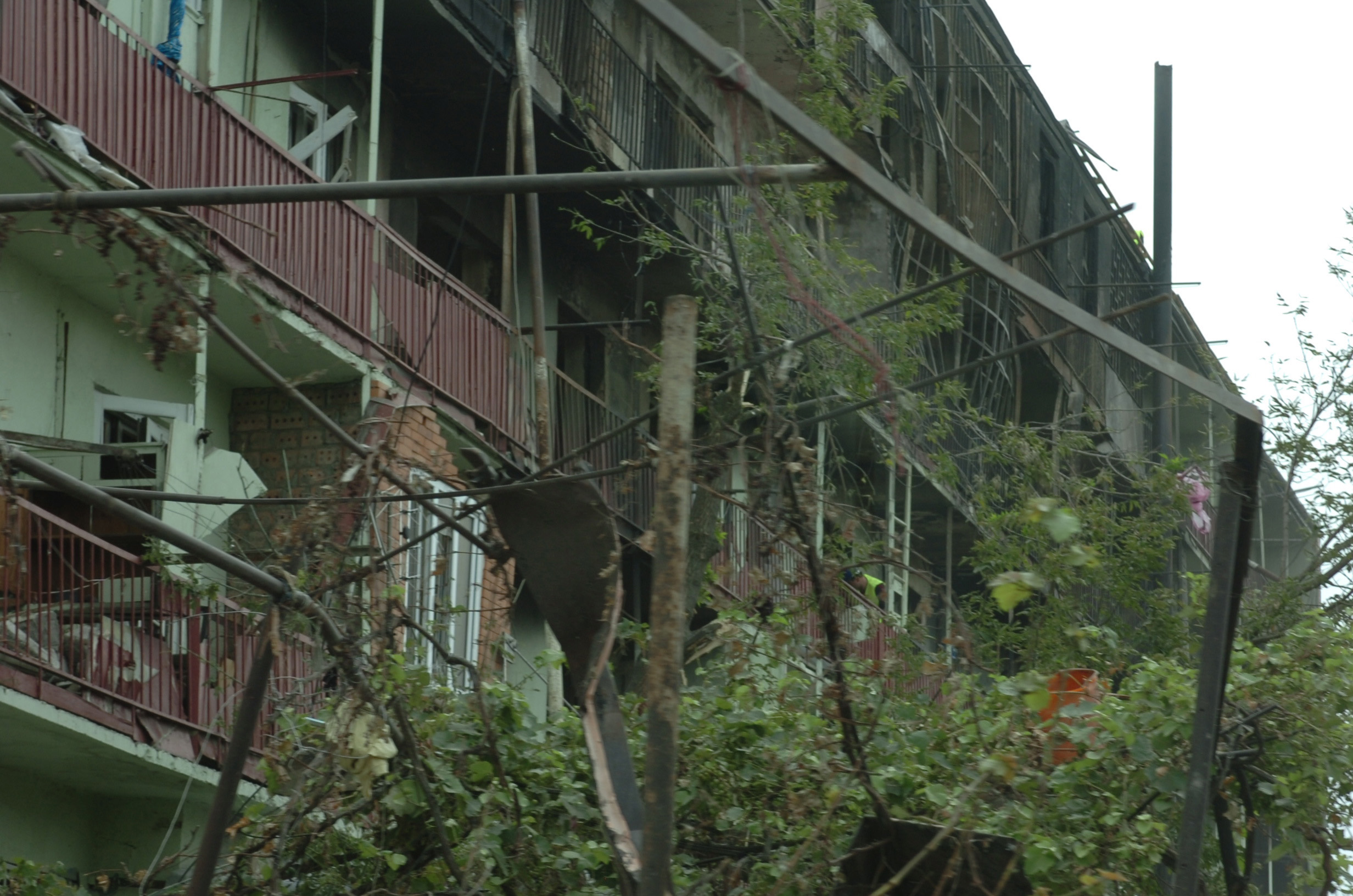 Ruins of a burnt apartment building where sixteen people were killed and thirteen others injured are observed by members of U.S. European Command’s Joint Assessment team in Gori, Republic of Georgia, Aug. 25, 2008. Residents of Gori begin to return home and start to clean up their city following the recent conflict between Russia and Georgia. The Assessment team and officials from the government of Georgia tour the embattled city to assess the level of damage, status of relief efforts, and the return of displaced persons.